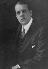 David Ignatius Walsh